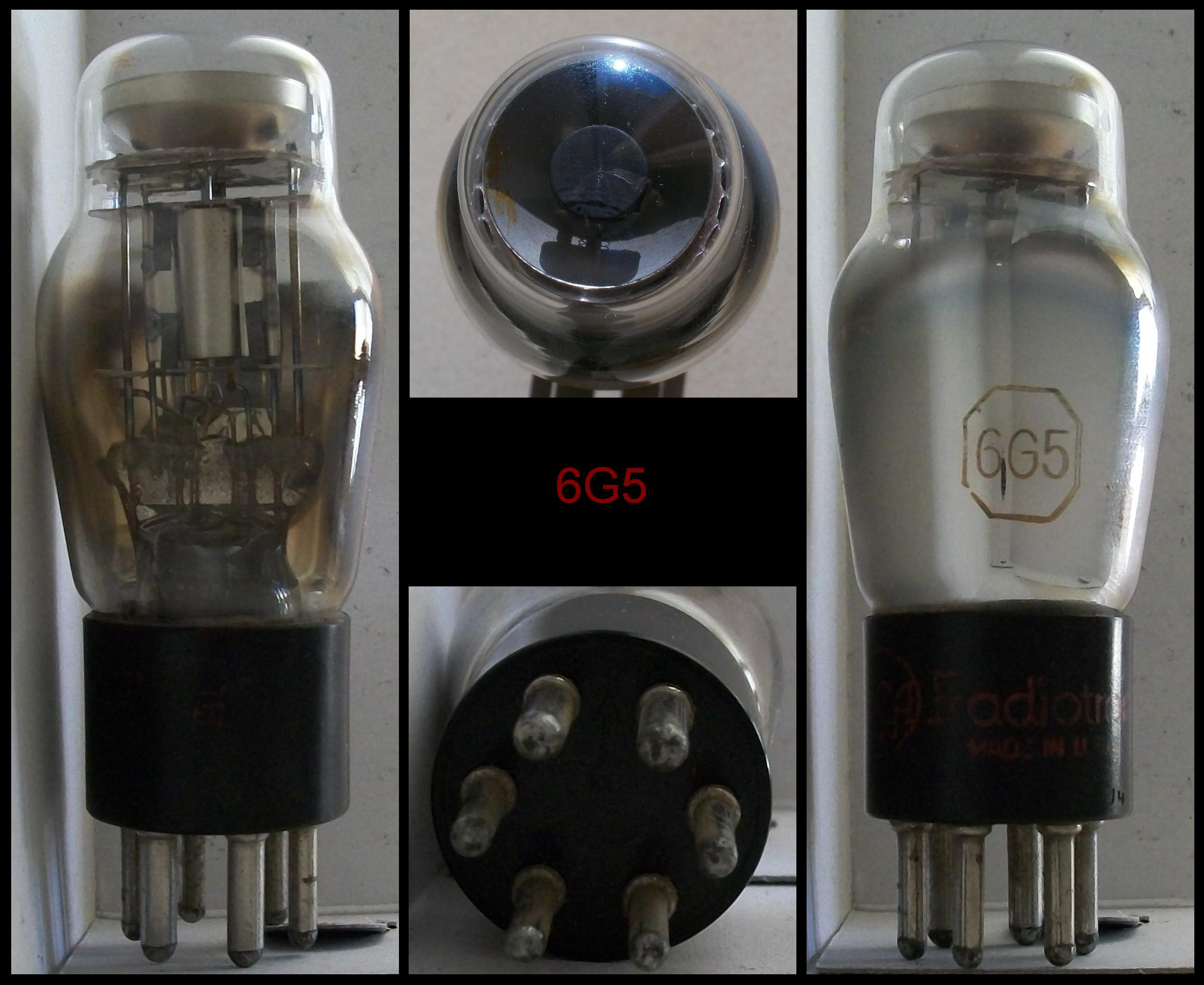 6G5, an early type of Magic eye tube